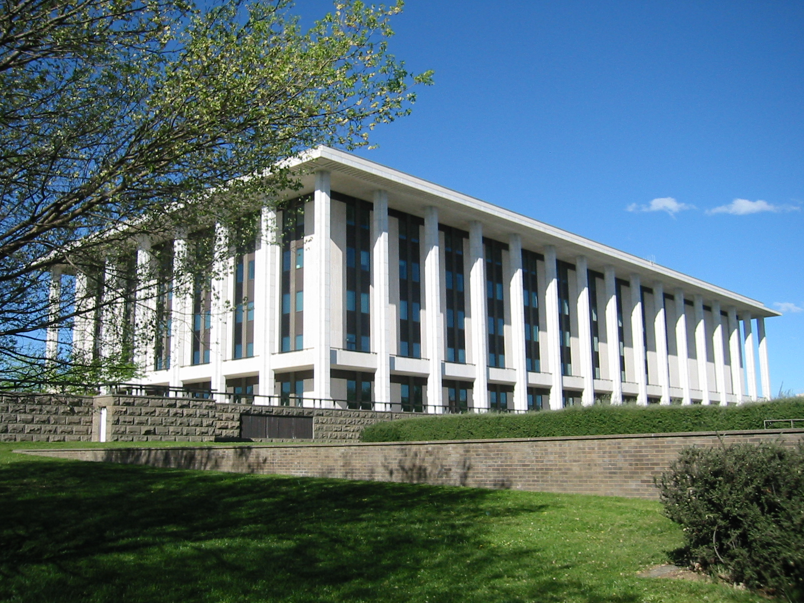 National Library of Australia, photo taken by John Conway 2004 and released under the GFDL